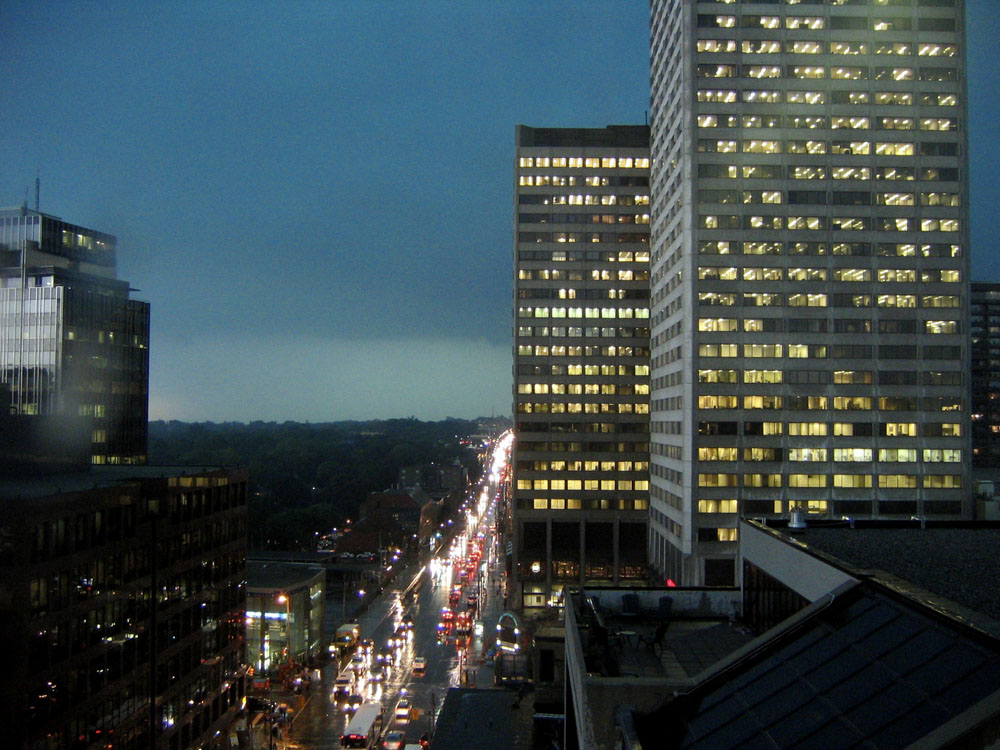 Looking west along Eglinton Avenue at Yonge Street during a rainstorm in August 2005. The two large towers at right are part of the Yonge Eglinton Centre; at left is part of Canada Square.